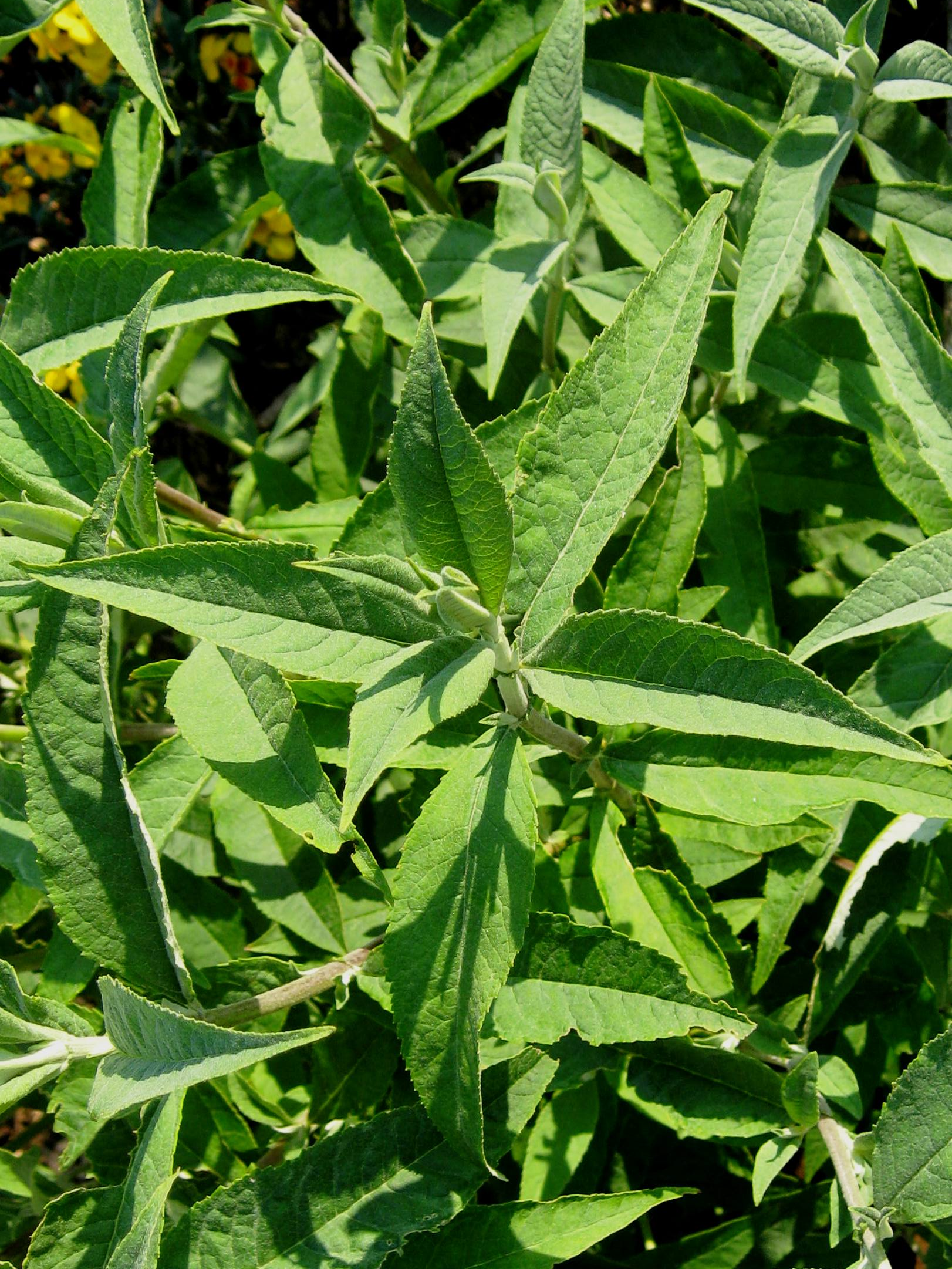 Leaves of Buddleja davidii 'Autumn Beauty'.